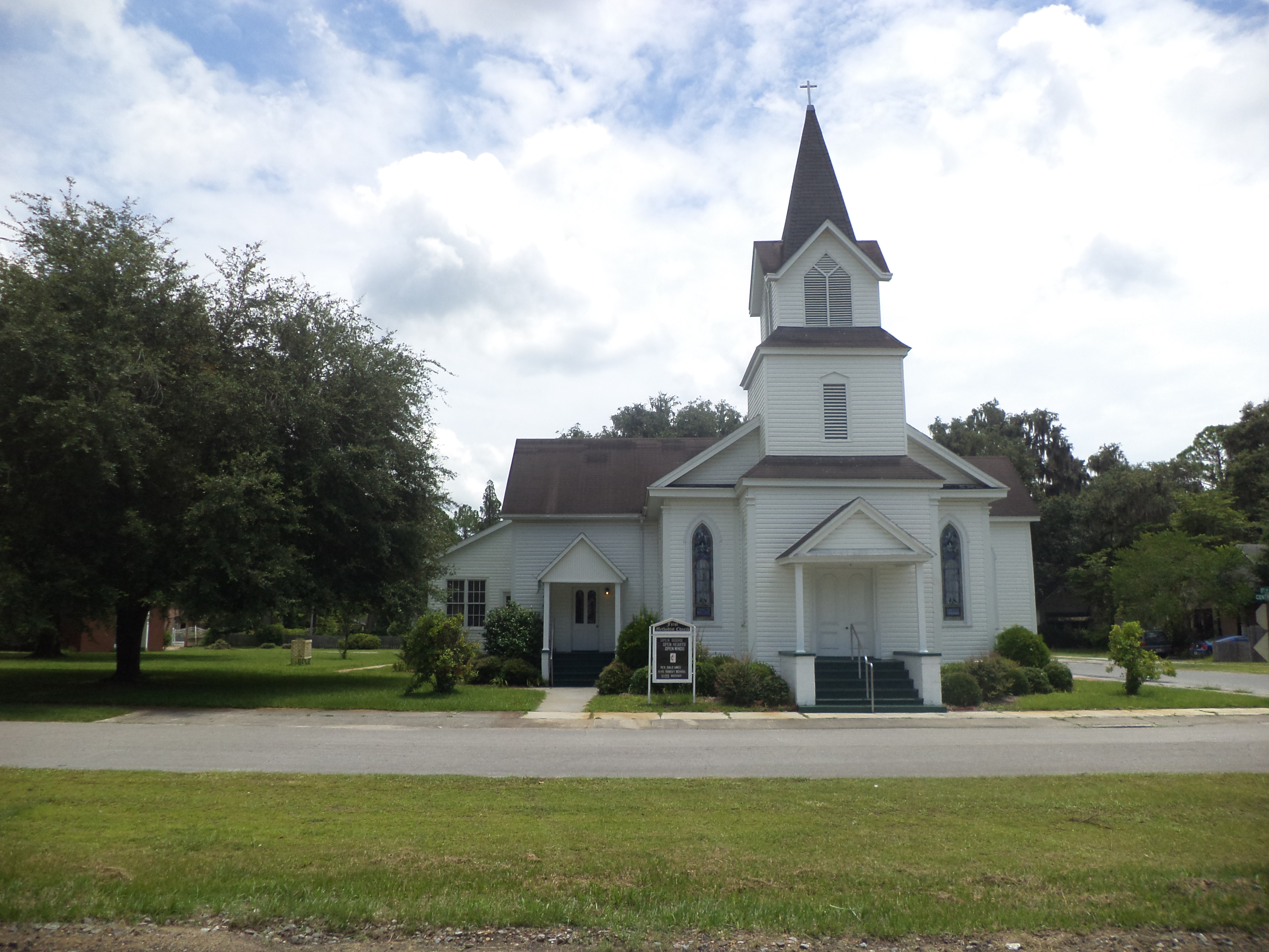 First Methodist Church, 405 Central Ave SW, Jasper, Hamilton County, Florida